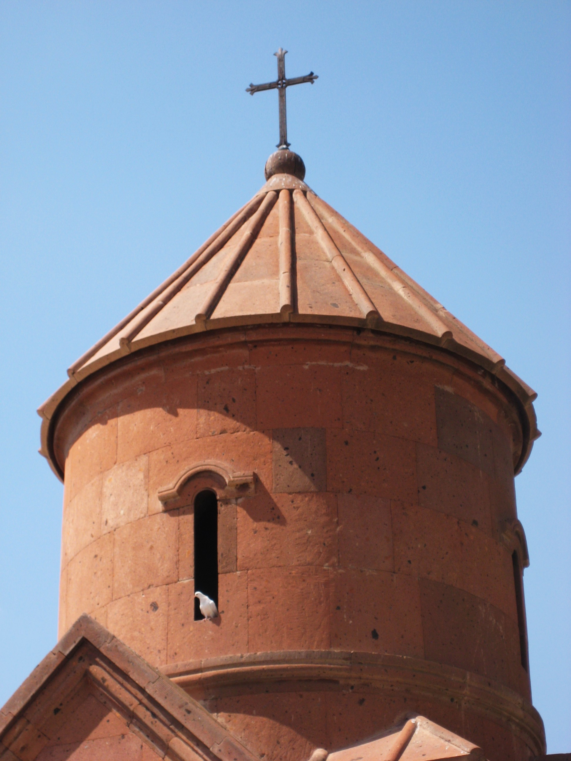 Dome of Saint Sargis at Ashtarak